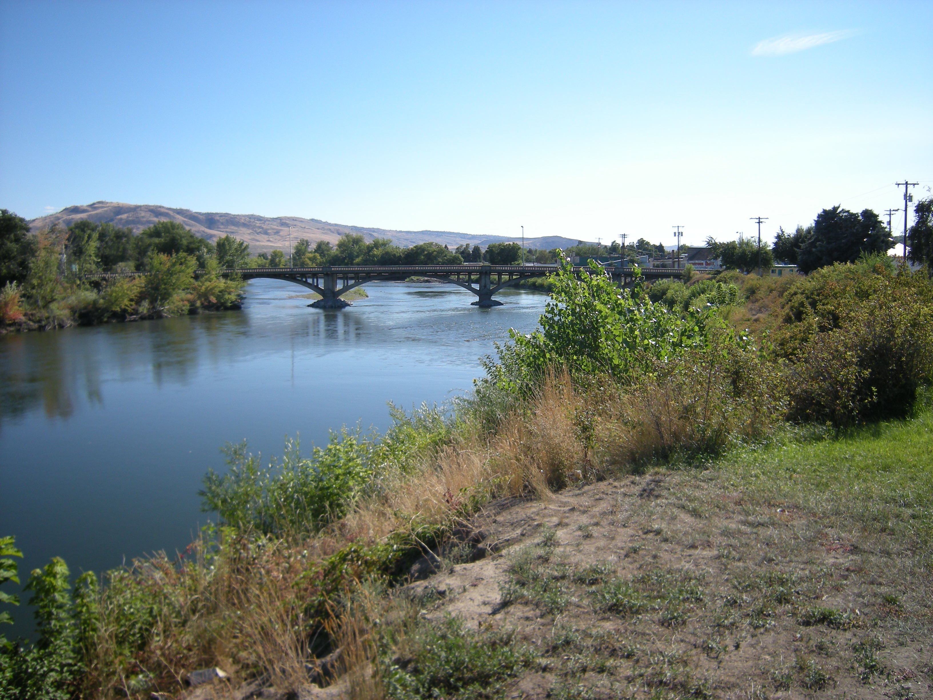 A bridge across the Okanogan River at Omak, Washington.